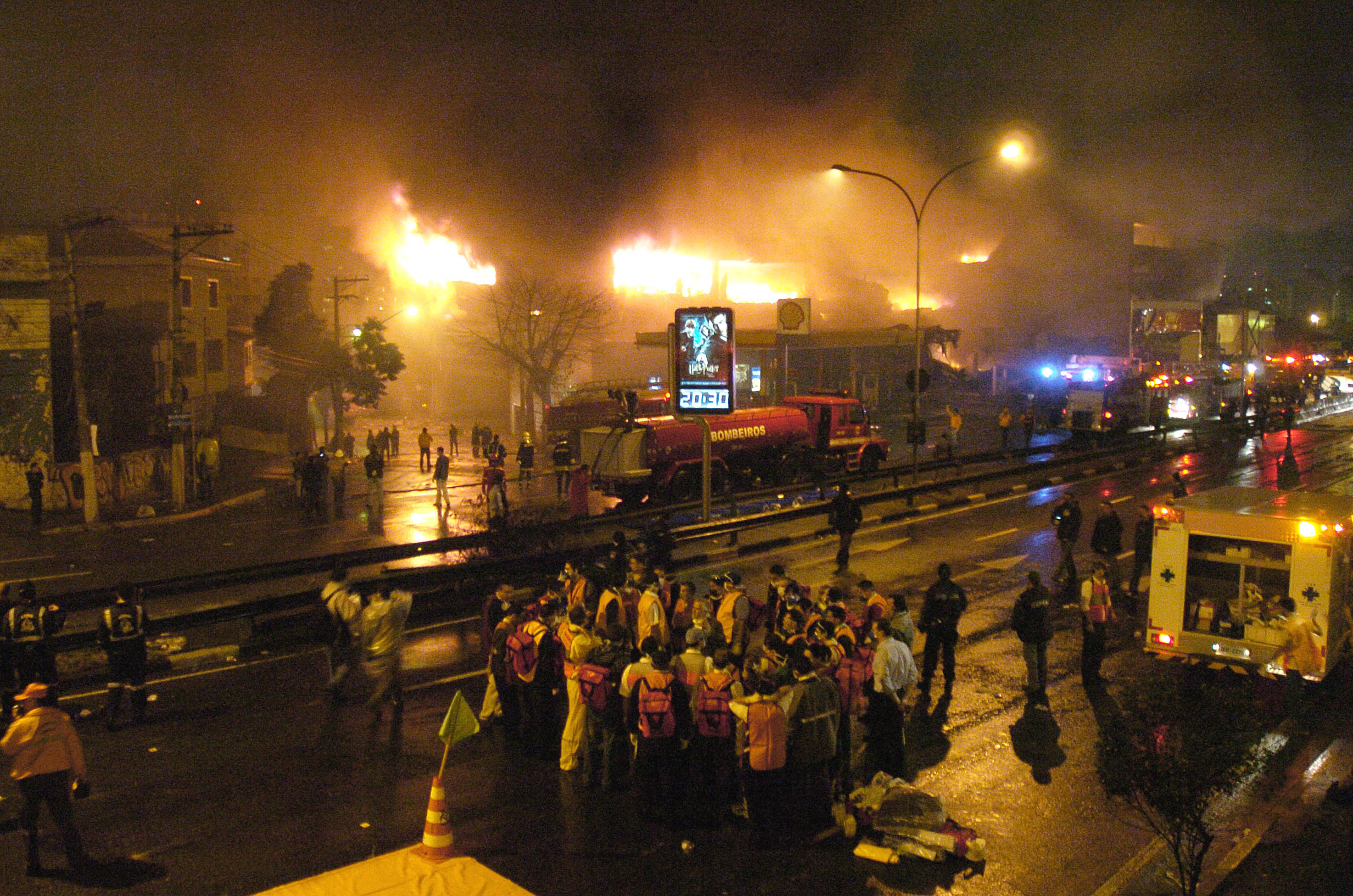 Firemen try to extinguish a fire in a warehouse belonging to TAM where the accident involving one of the company`s own aircraft (Flight JJ3054) occurred. The aircraft crashed and exploded on the build after an unsuccessful land at the Congonhas airport.